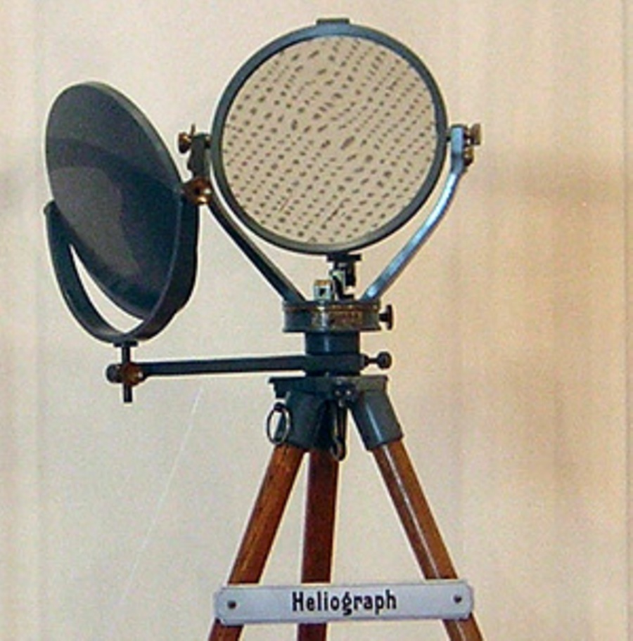 Heliograph This is a (very) tightly cropped and rescaled version of the Wikimedia file "Heliograph (1).jpg", which was created by Jithra Adikari from Calgary Canada